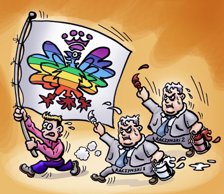 Cartoon about Gay Parade in Poland, frustrated by Kazcynski brothers